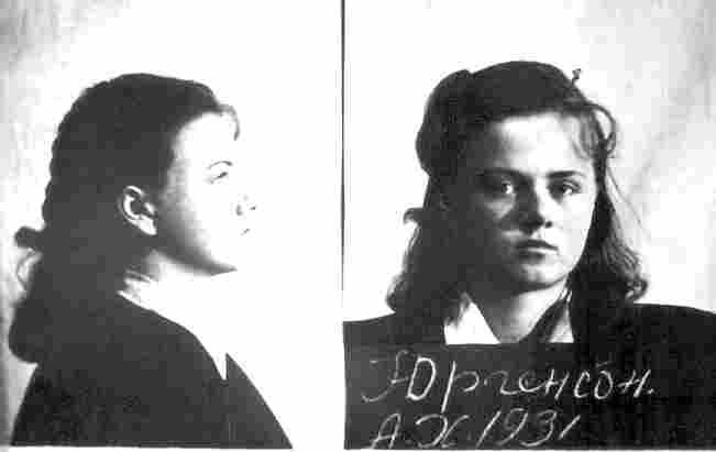 Aili Jürgenson, a schoolgirl arrested by NKVD in 1946